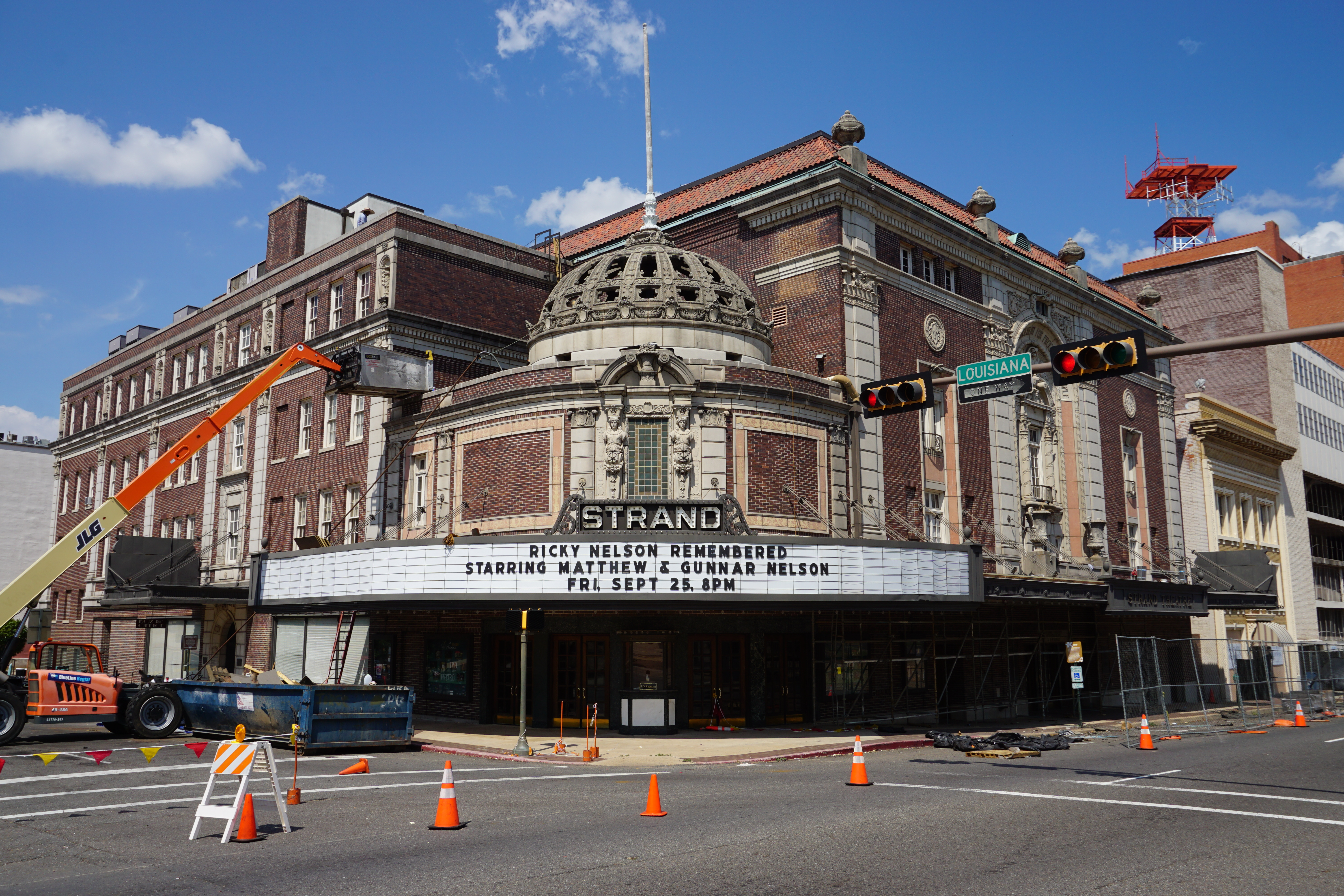 The Strand Theatre (under renovation) in Shreveport, Louisiana (United States).